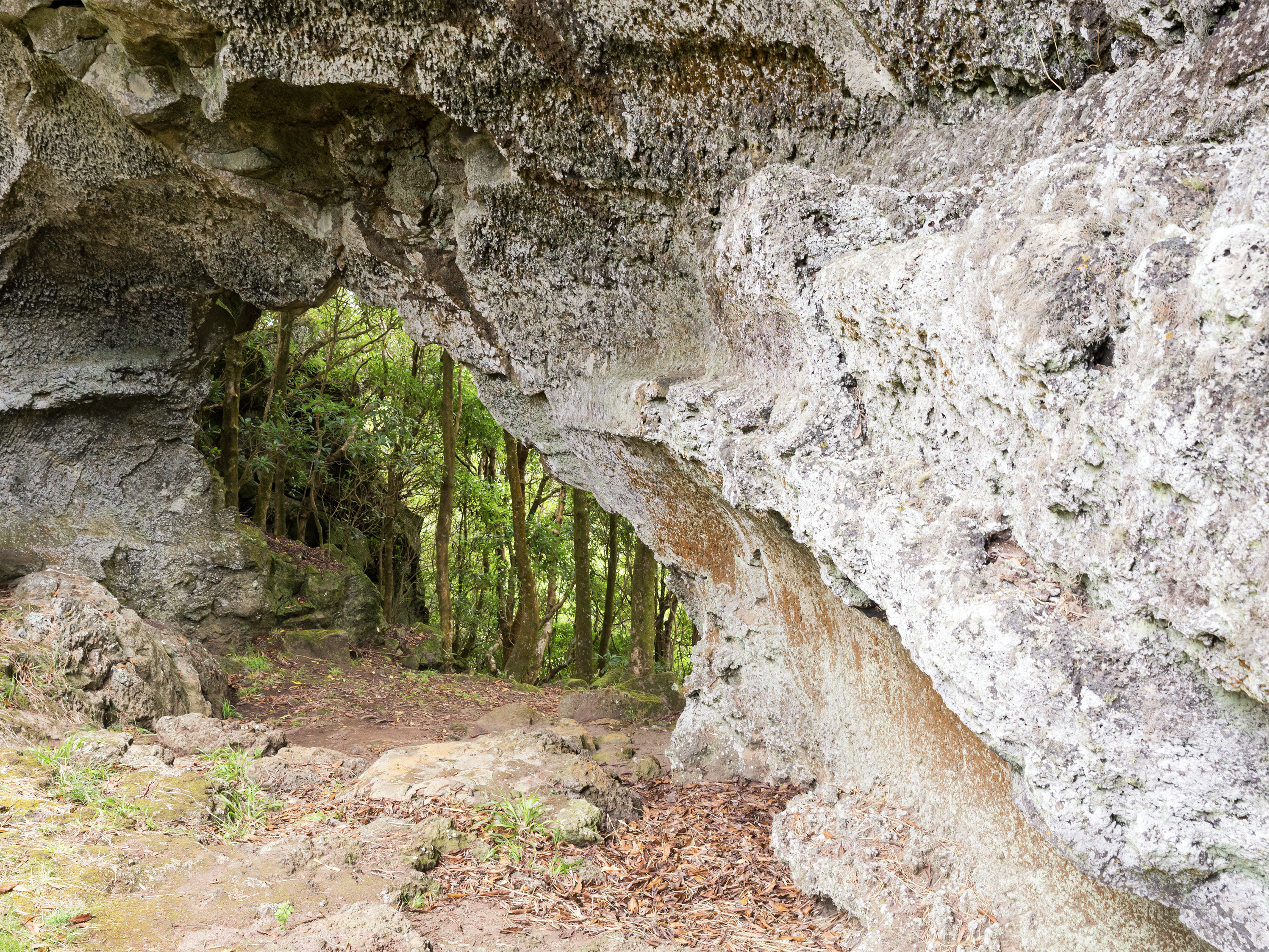 Furna da Maria Encantada, cave on Graciosa Island, Azores